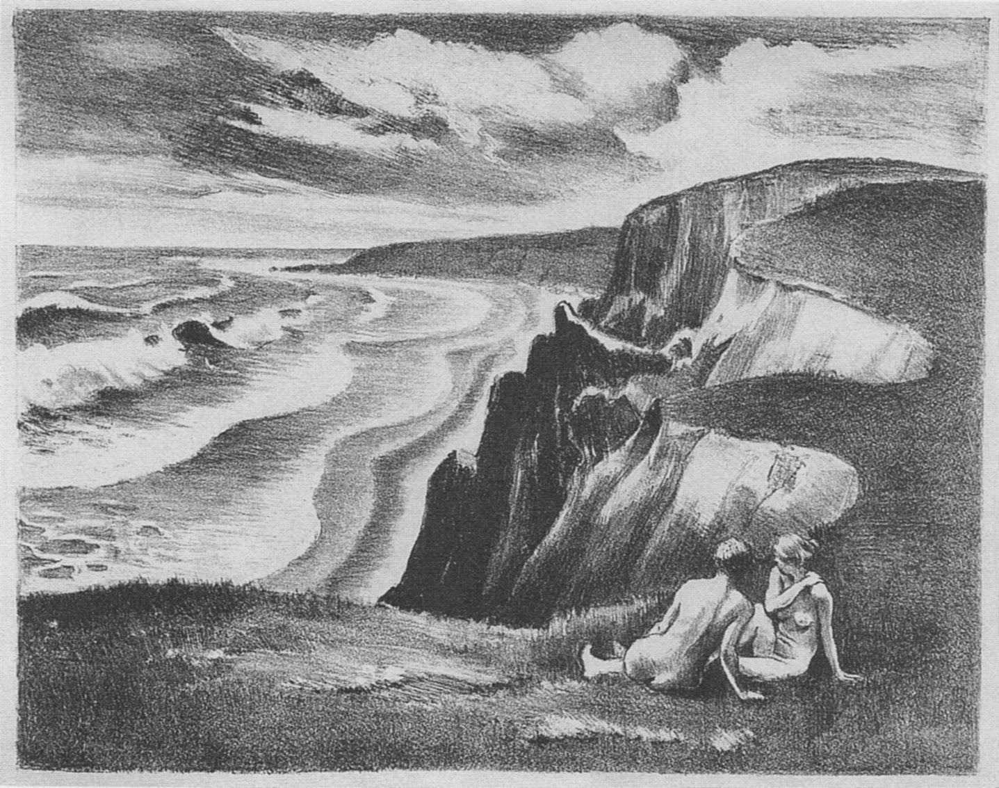 Mabel Dwight, Cliffs by the Sea, lithograph on stone, 24.9 x 31.7 cm, edition of 25 printed by the Federal Art Project